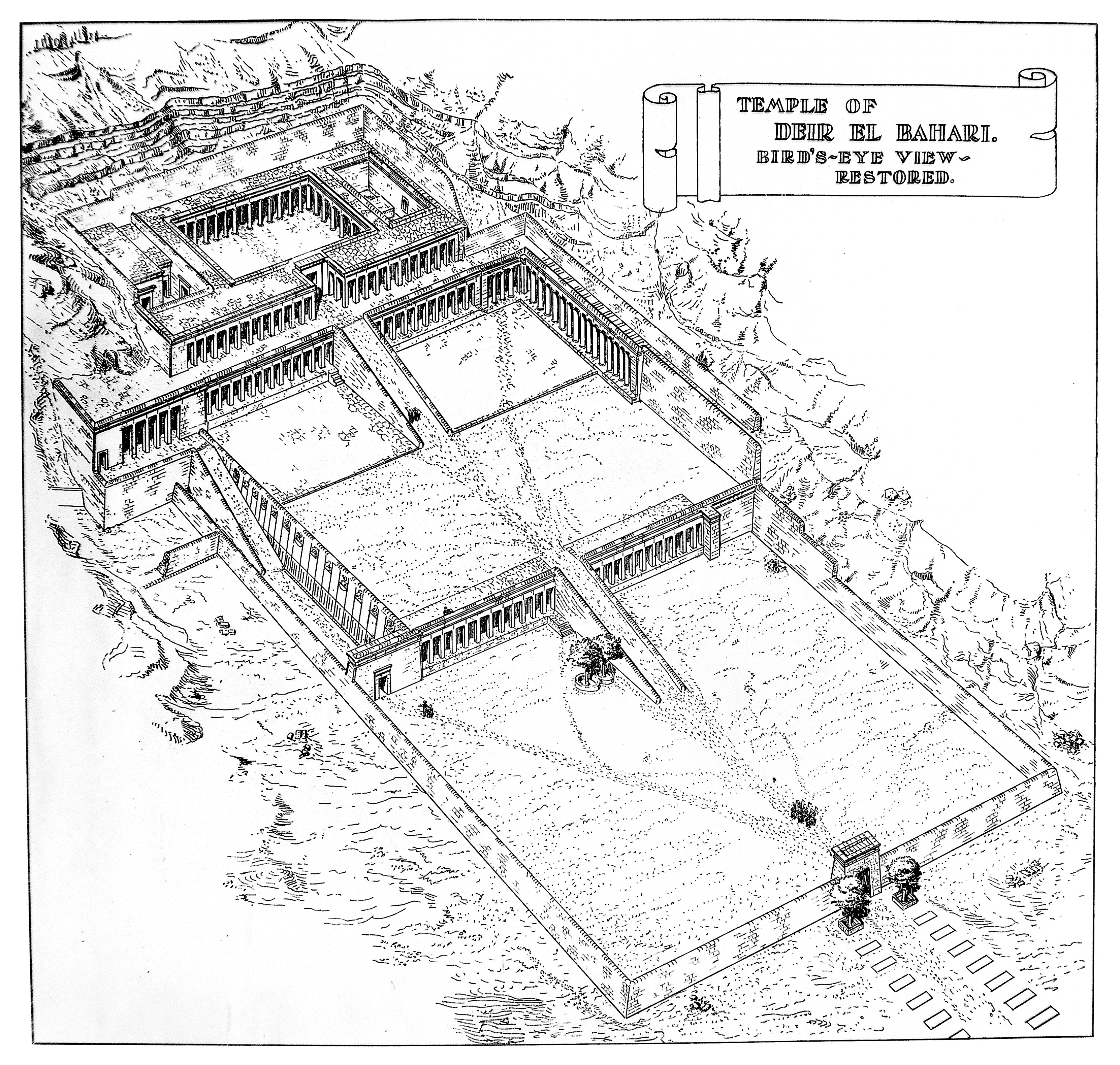 Birds-eye view of restored Temple of Deir-El-Bahari Wellcome Images Keywords: egyptology; Art; archaeology: deir-el-bahari